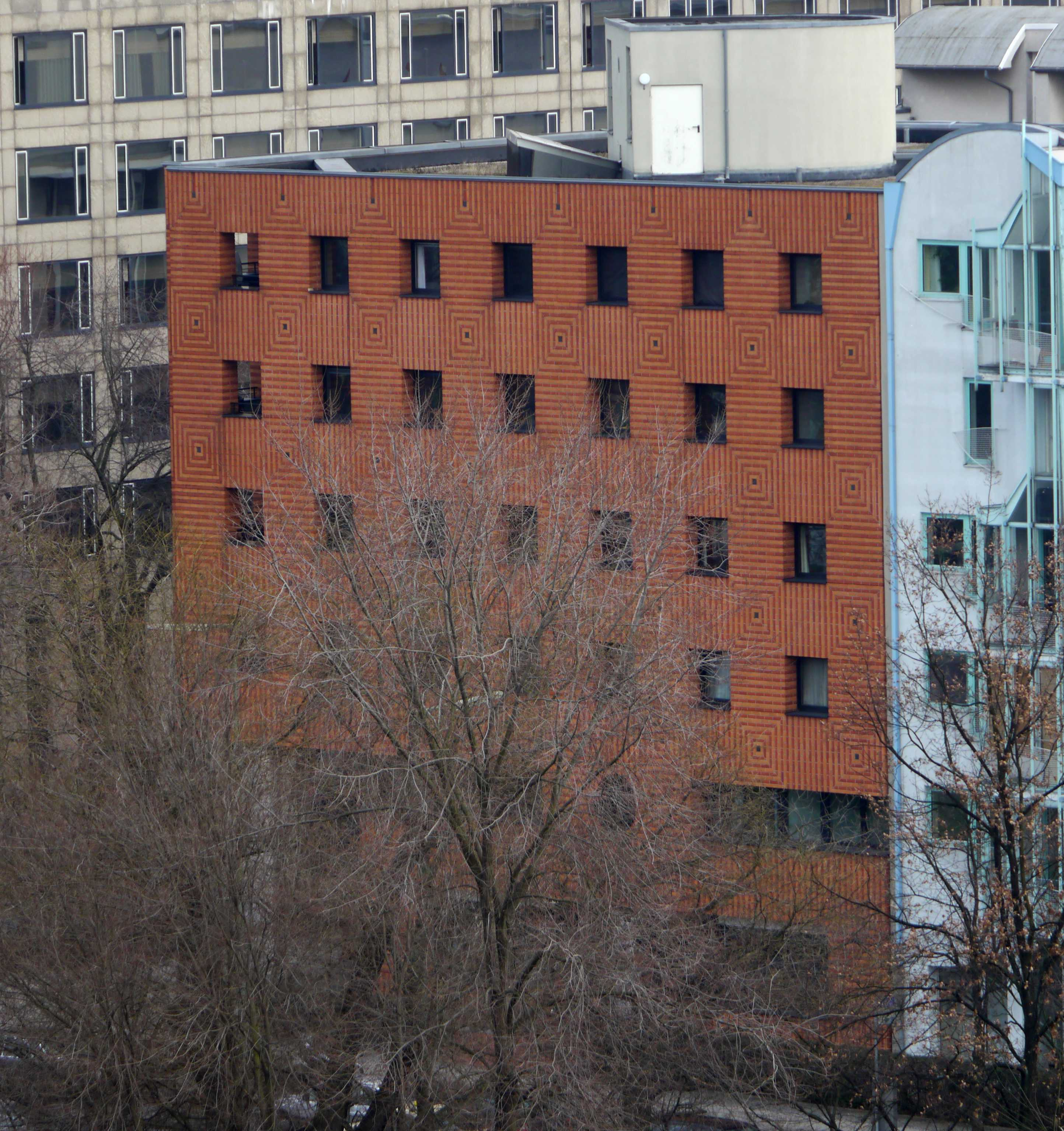 Luetzowplatz 1, Berlin